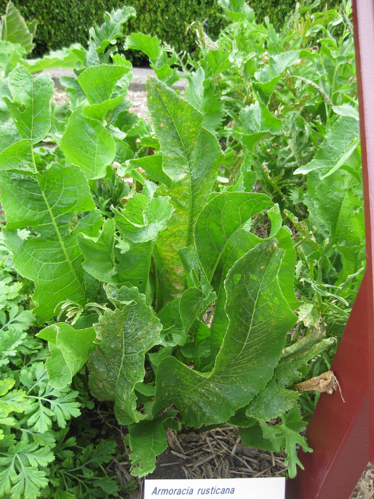 Photographed at the Royal Botanic Gardens Sydney (Australia) in January